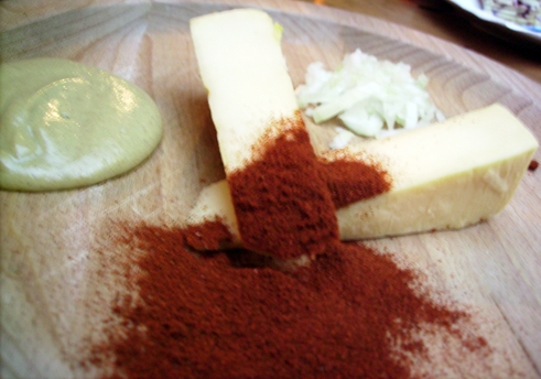 A plate of pivní sýr (Weisslacker) at U Vejvodů in Prague, Czech Republic